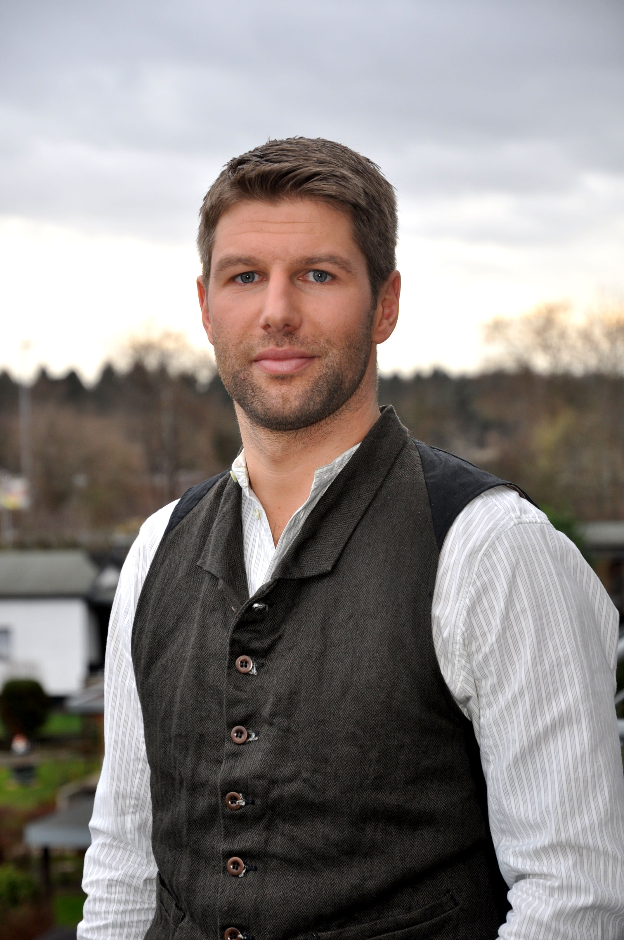 Former German football player Thomas Hitzlsperger.